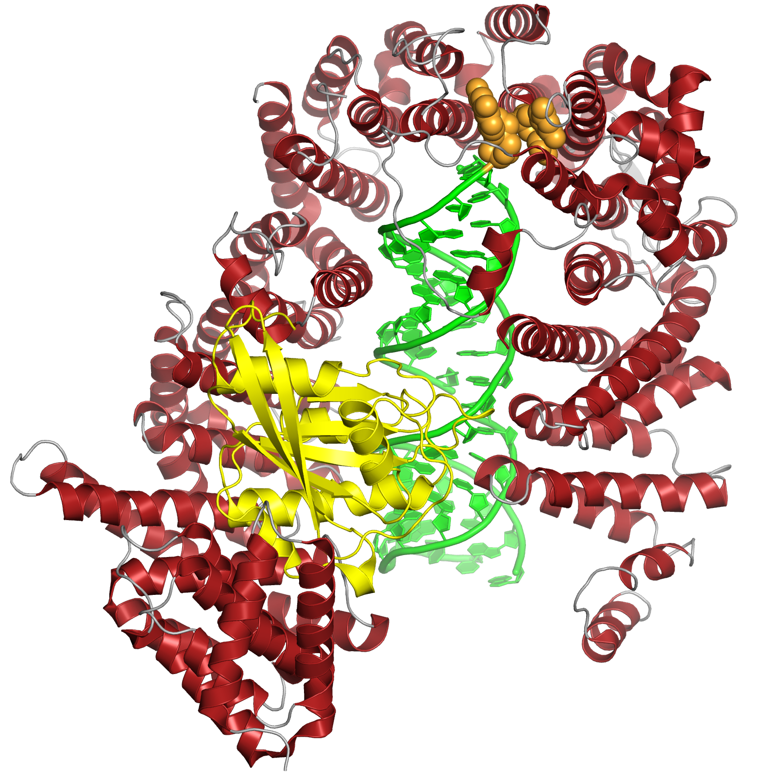 The crystal structure of the human exportin-5 (XPO5) protein (red, composed of HEAT repeats) in complex with Ran-GTP (yellow) and a pre-microRNA (green), with the two-nucleotide overhang that serves as an XPO5 recognition element shown in orange spheres at the top of the figure. This complex is involved in the export of pre-miRNA from the cell nucleus (where it was generated by the Microprocessor complex of Drosha and DCGR8) to the cytoplasm (where it will be further processed by Dicer). Rendered with PyMol from PDB ID 3A6P.